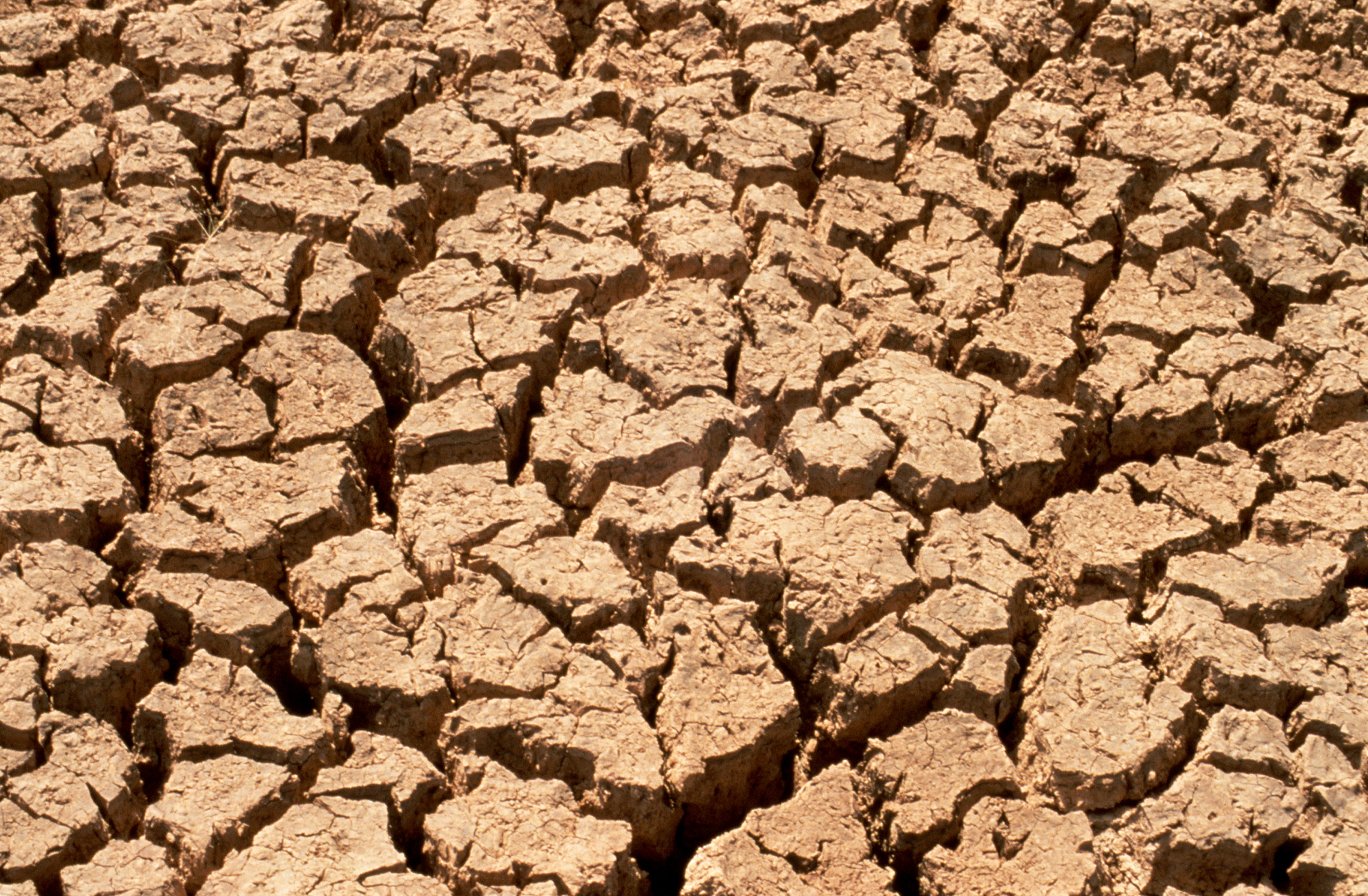 Parched earth, typical of a drought.